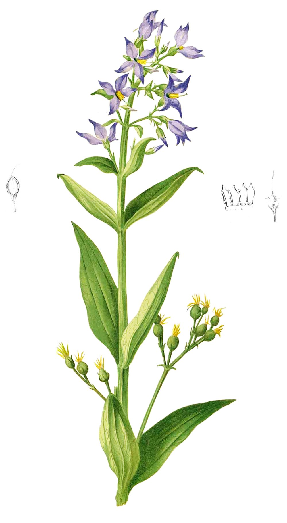 Exacum tetragonum - Plate from book